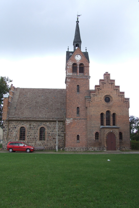 Church in Berlin-Französisch Buchholz, Germany